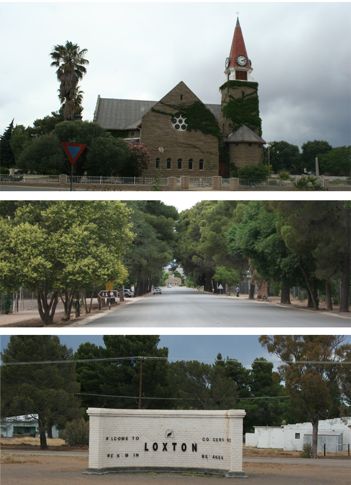 A compilation of images of the town of Loxton, Northern Cape, South Africa. The top picture is of the town's Dutch Reformed Church. The middle picture is of the tree lined main road leading to the church. The bottom picture is of the town sign.